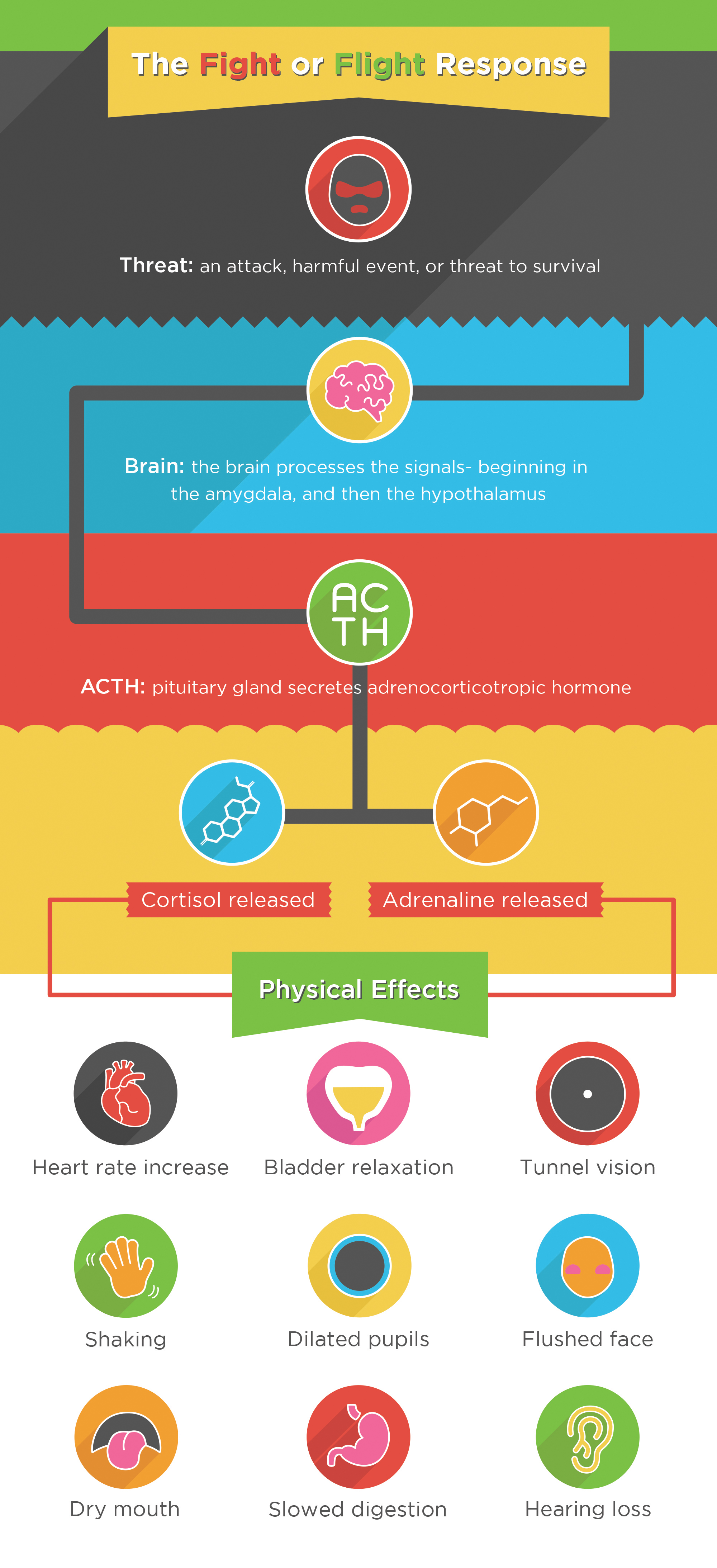 A graphic explaining the fight or flight response in humans.